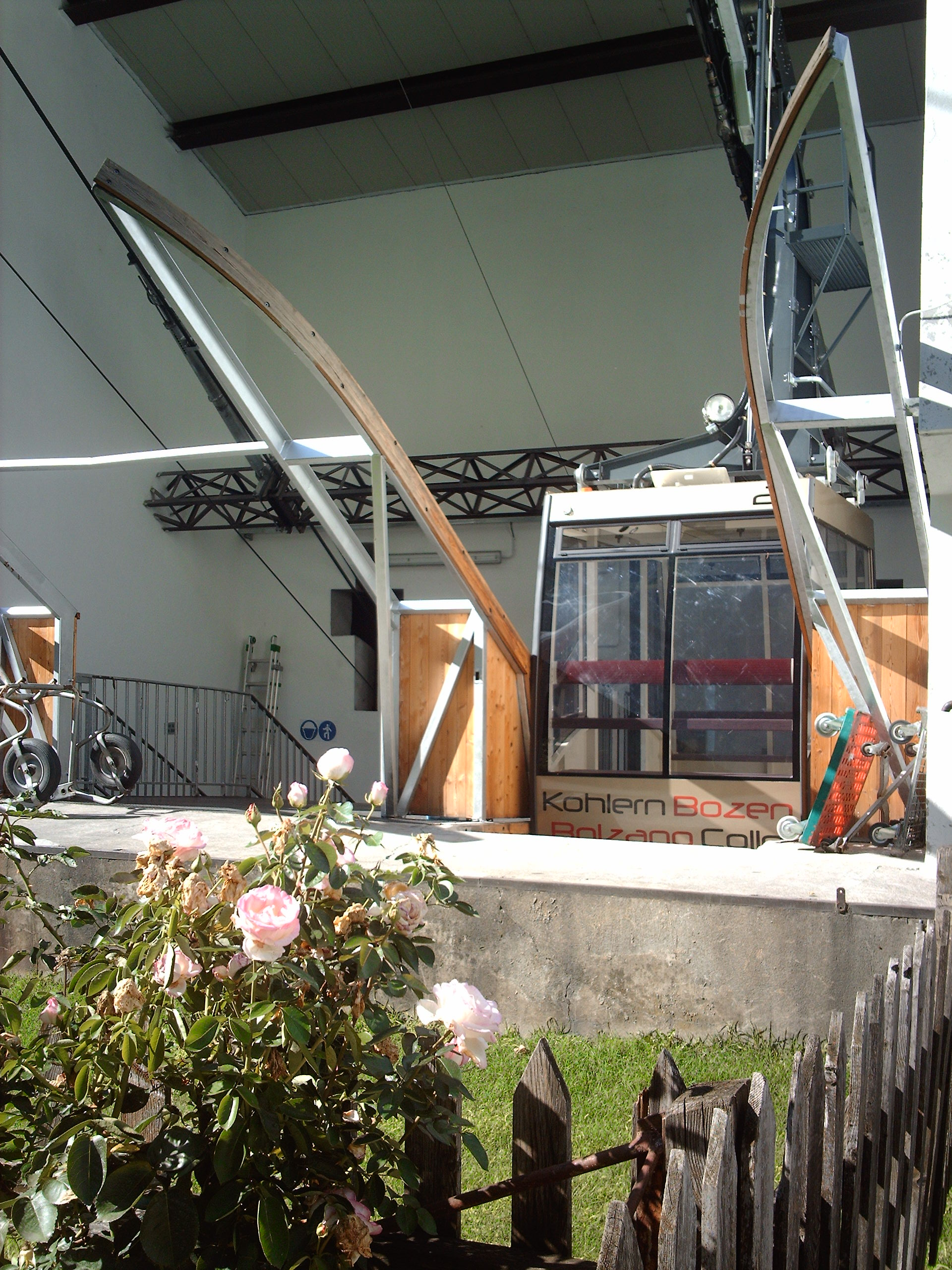 Picture by Skafa